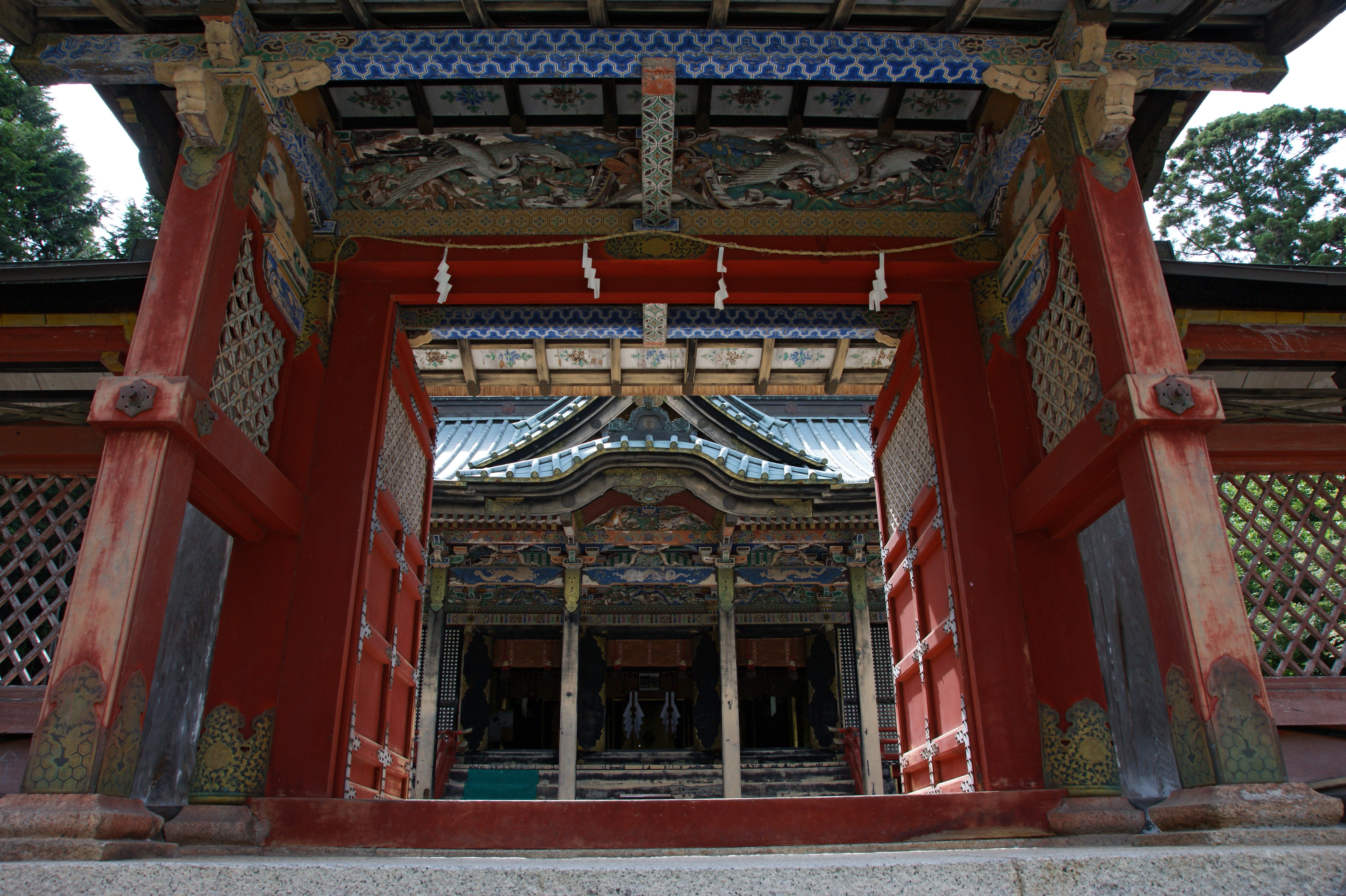 Hiyoshi Toshogu in Sakamoto, Otsu, Shiga prefecture, Japan